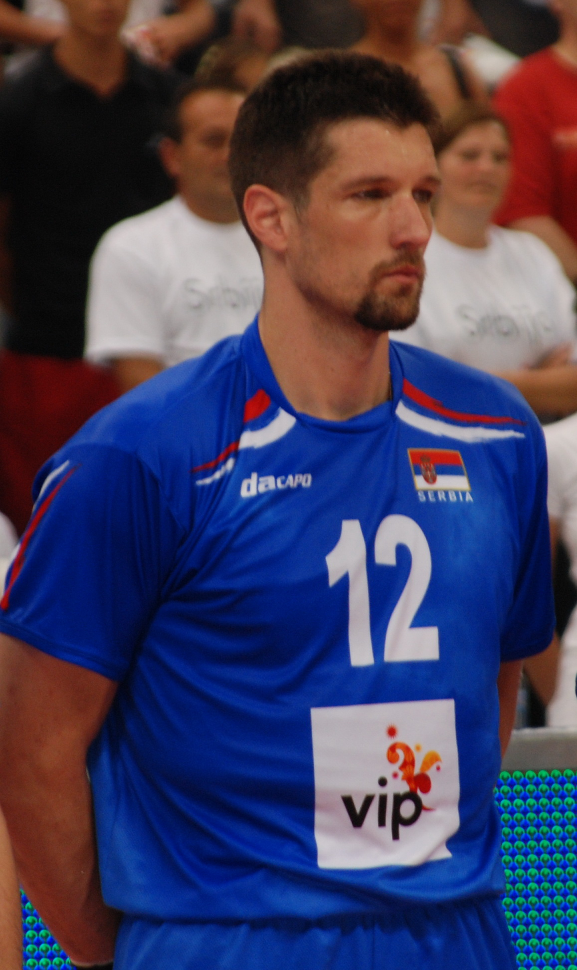 Andrija Gerić is a Serbian volleyball player.